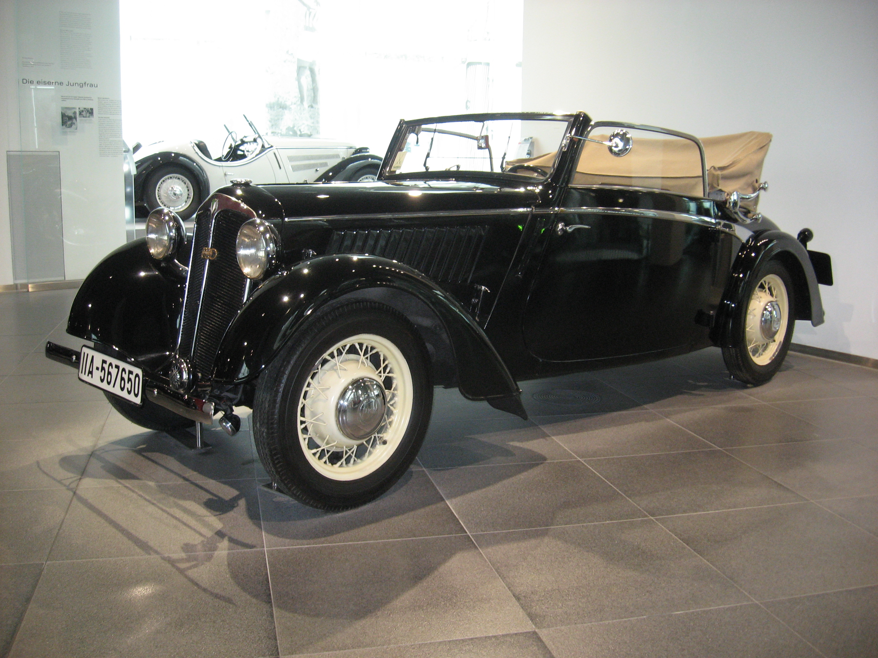 Subject: DKW F5 Luxus-Cabriolet Viersitzige Author: Luc106 Date:June 13th, 2011 Place/Country: Audi Museum, Ingolstadt (Deutschland) I release all rights in the public domain. Licensing